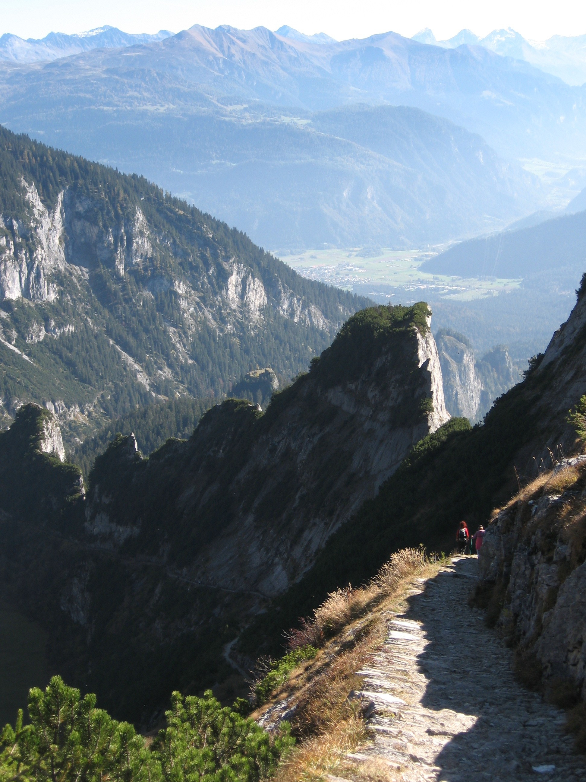 Path to the alps on Flimserstein where the cows have to climb in early summer and return in autumn.